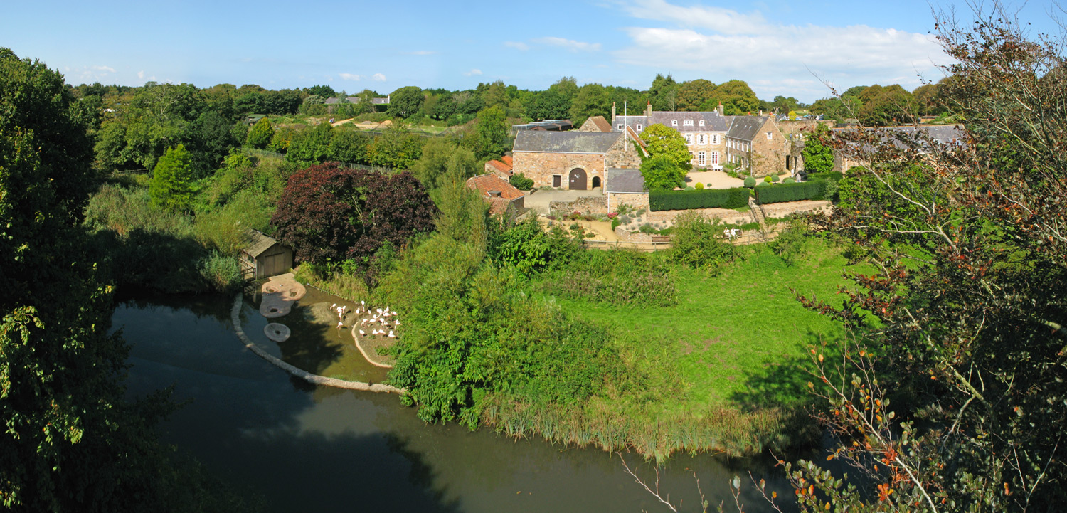 Durrell Wildlife Conservation Trust (or Durrell for short after its founder, Gerald Durrell), previously called, Jersey Zoological Park or Jersey Zoo is a 25-acre (100,000 m²) zoological park established in 1959 in Jersey.